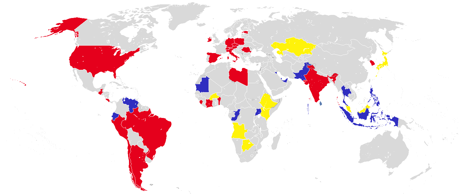 UN Human Rights Council 22nd regular session 21 March 2013 vote on resolution 22/1 on reconciliation and accountability in Sri Lanka. For Against Abstain Used File:BlankMap-World.png as template.